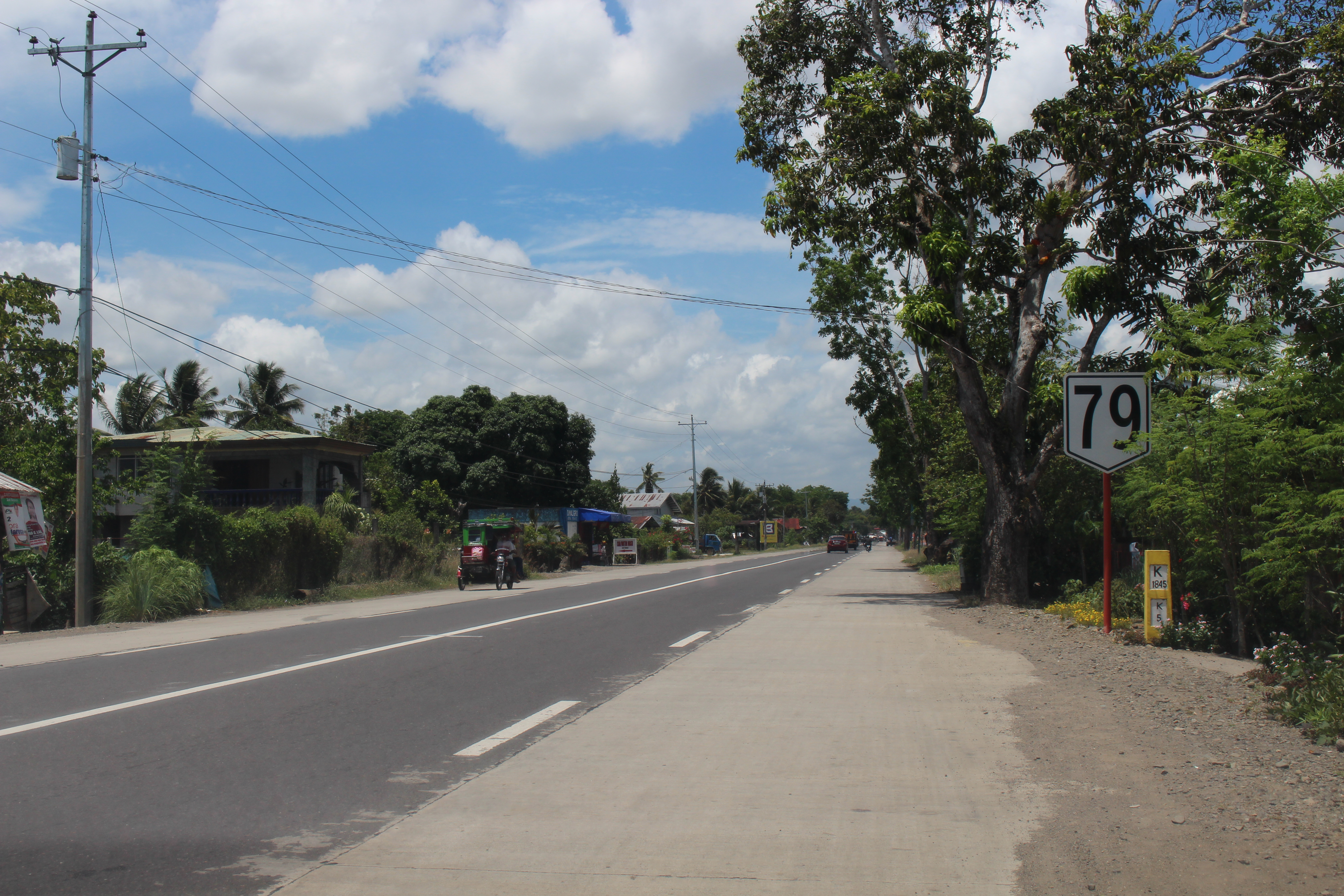 Reassurance marker of National Route 79 at Dipolog City, Zamboanga del Norte.